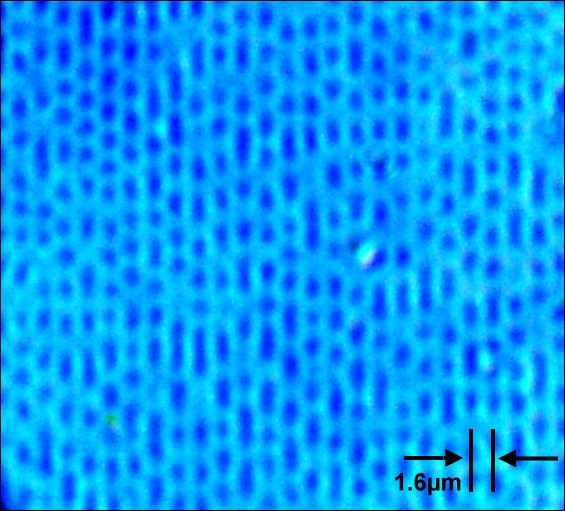 Compact disk optical microphotograph, pits and land clearly visible.